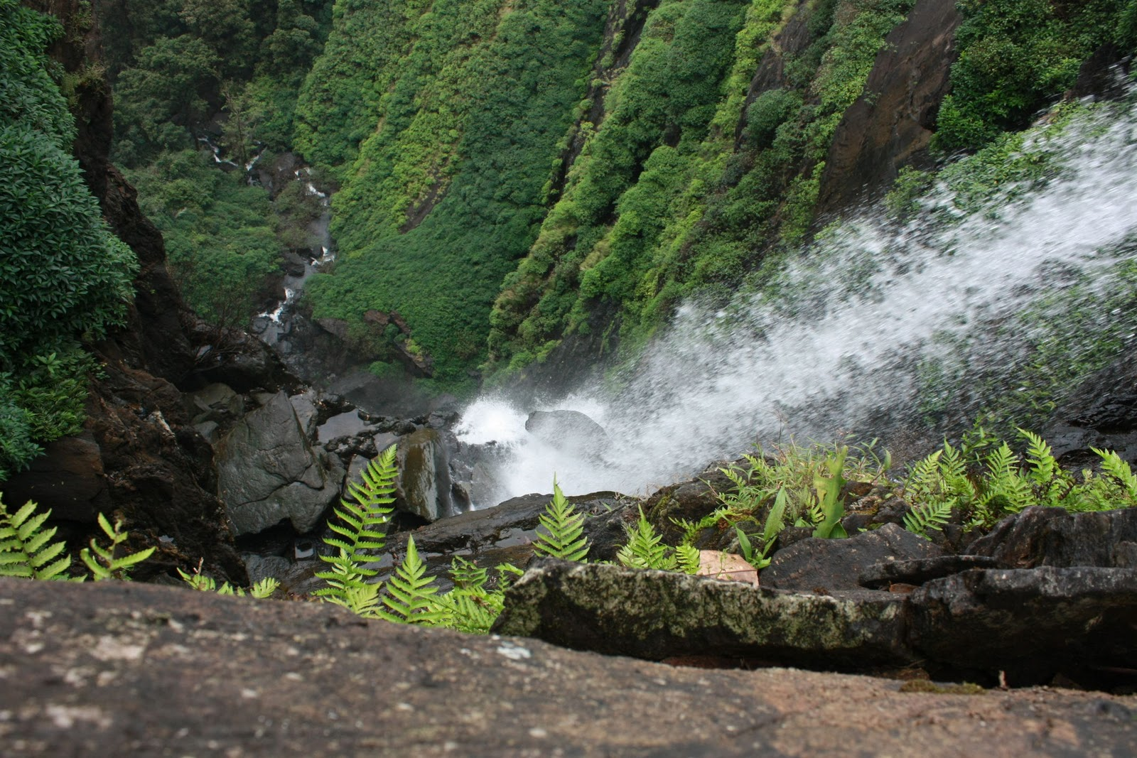 View from the top of Onake Abbi falls near Agumbe